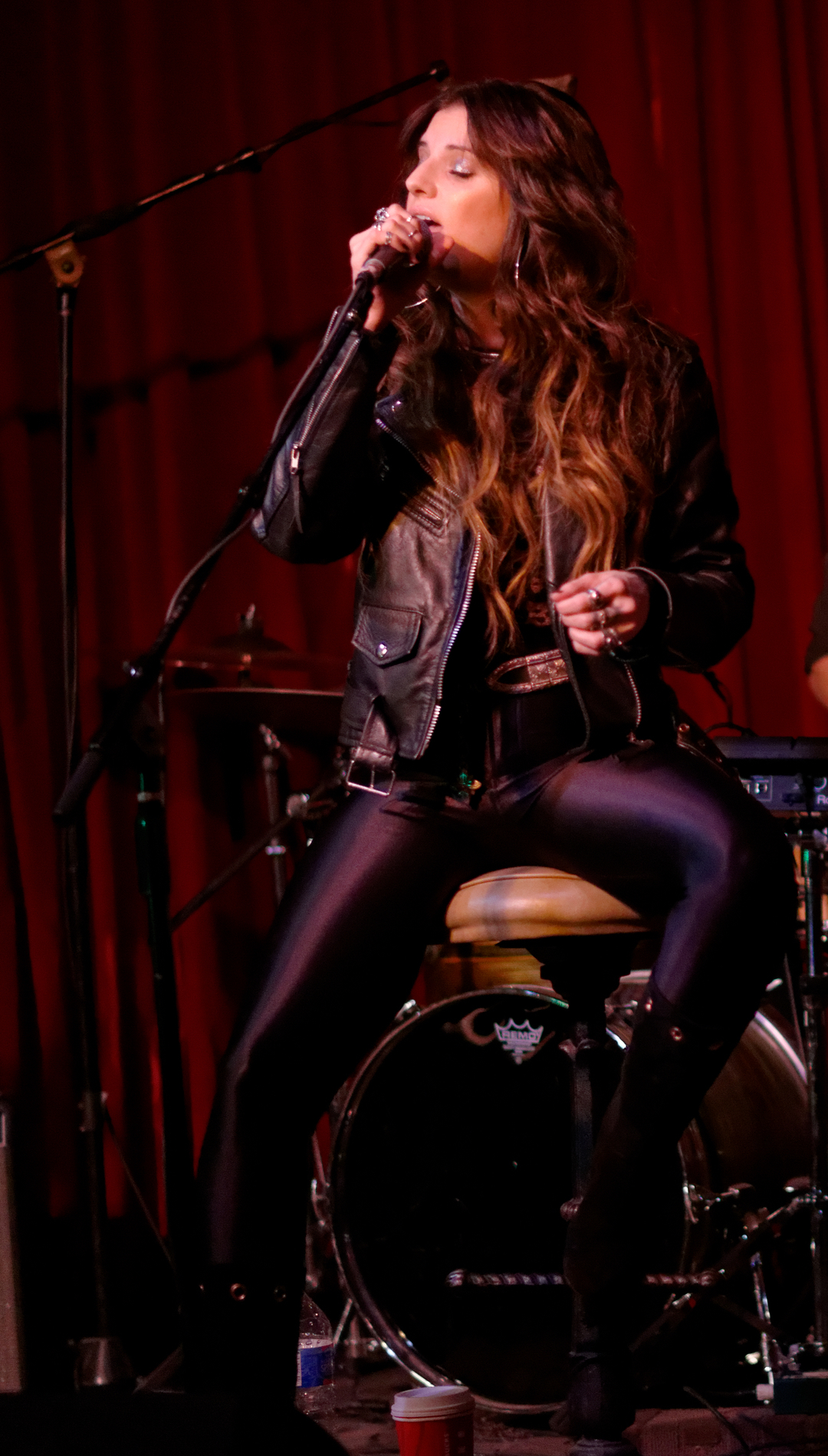 Juliet Simms performing live at the Hotel Cafe in Los Angeles California on Friday December 19th, 2014.